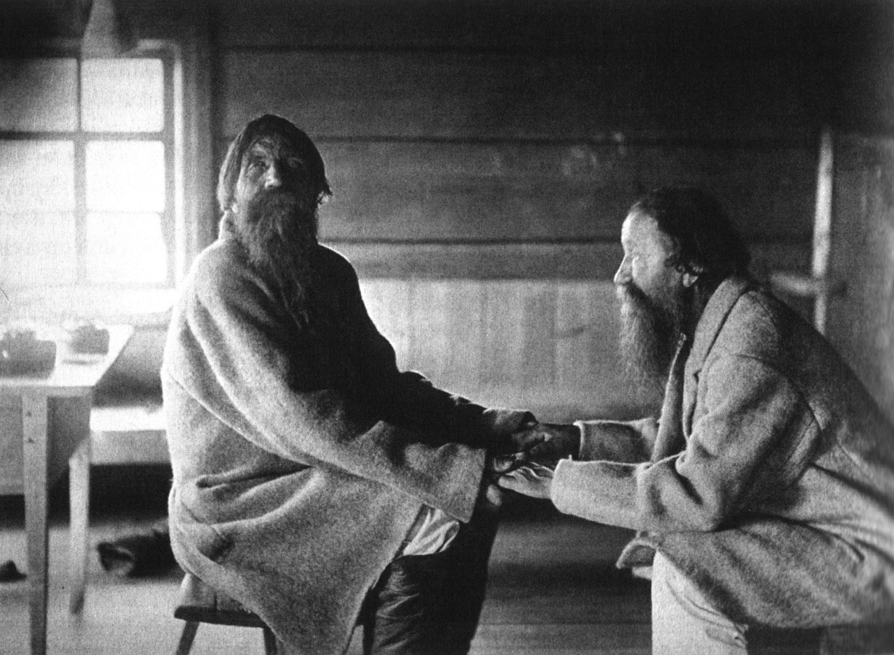 Brothers Poavila and Triihvo Jamanen reciting traditional Finnish folk poetry in the village of Uhtua (Kalevala), present-day Republic of Karelia, Russia, 1894.